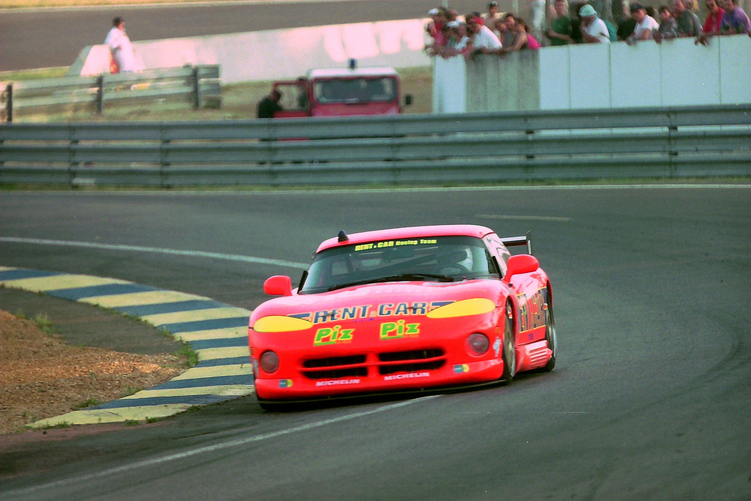 Dodge Viper RT10 - Rene Arnoux, Justin Bell & Bertrand Balas in the Esses at the 1994 Le Mans